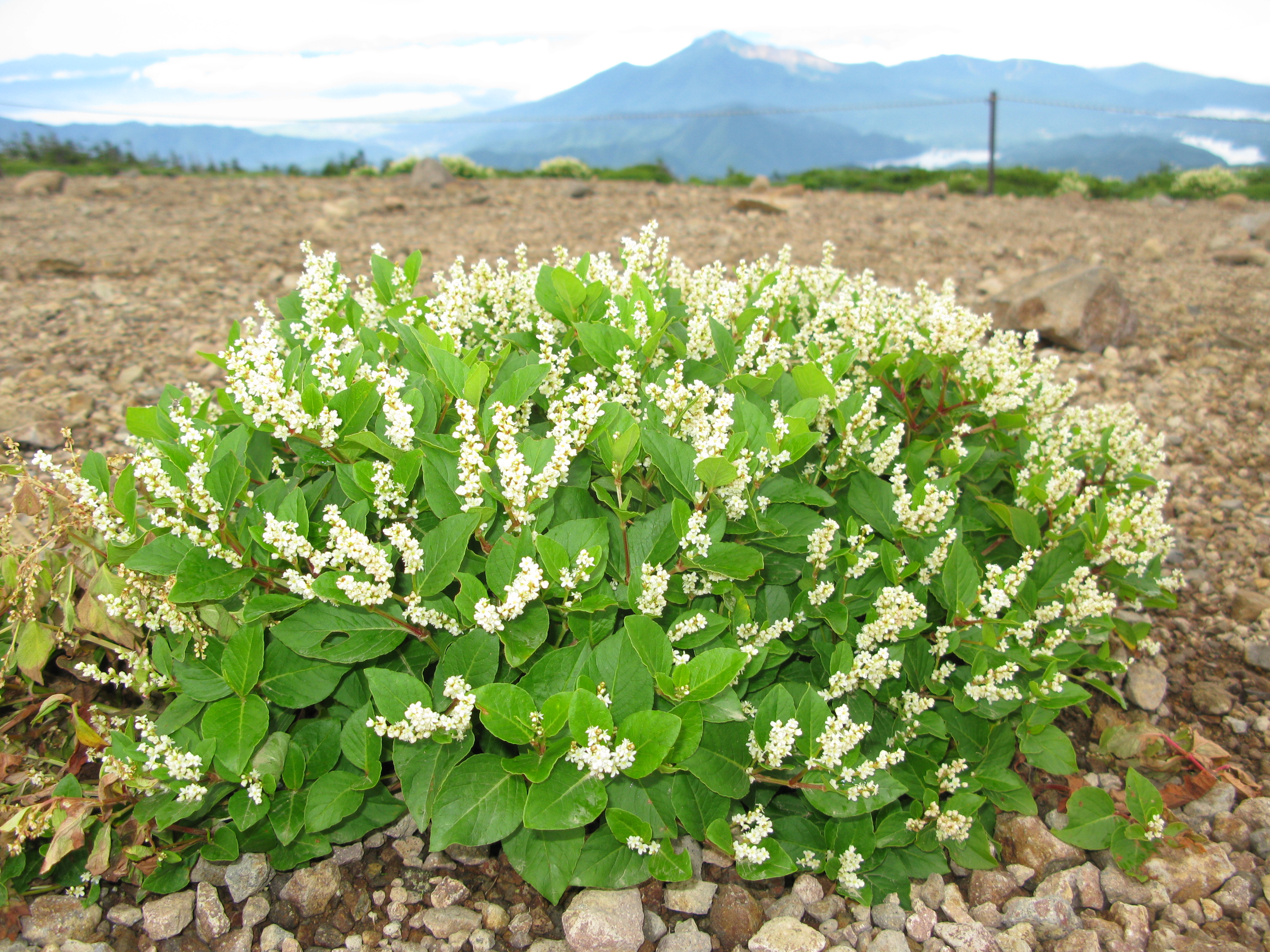 Aconogonon nakaii, Mount Higashi-Azuma, Fukushima pref., Japan